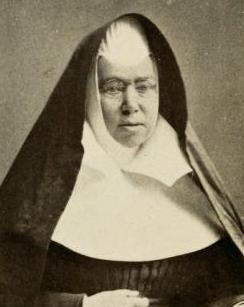 Mother Mary Francis Xavier Warde (1810-1884) of the Sisters of Mercy